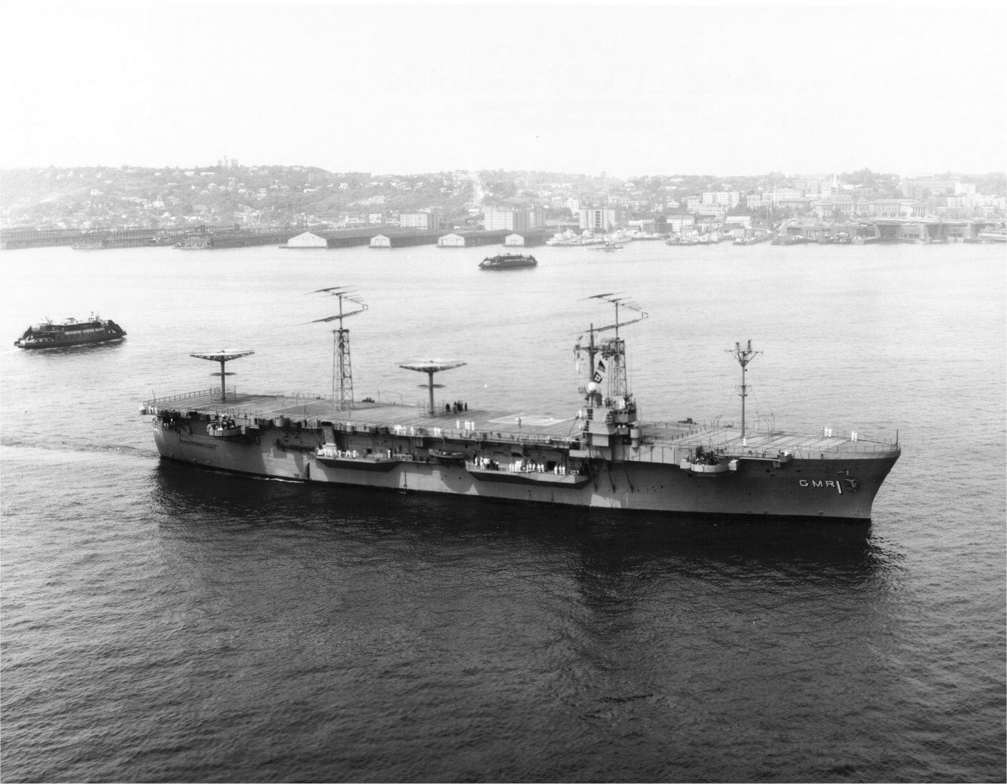 USS Annapolis (AGMR-1) underway at slow speed in New York Harbor after leaving New York Naval Shipyard soon after completing conversion from USS Gilbert Islands (AKV-39, originally CVE-107). Staten Island ferryboats are in the left and center backgrounds.